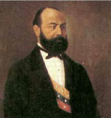 Oil painting of Santiago Pérez de Manosalva, President of the United States of Colombia